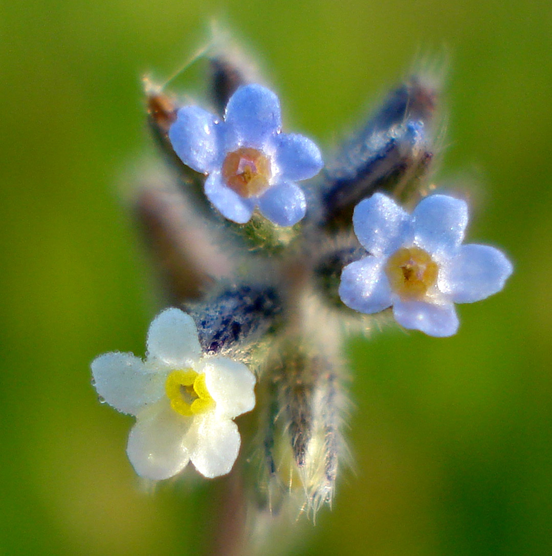 Myosotis discolor (Unterfranken, Germany)